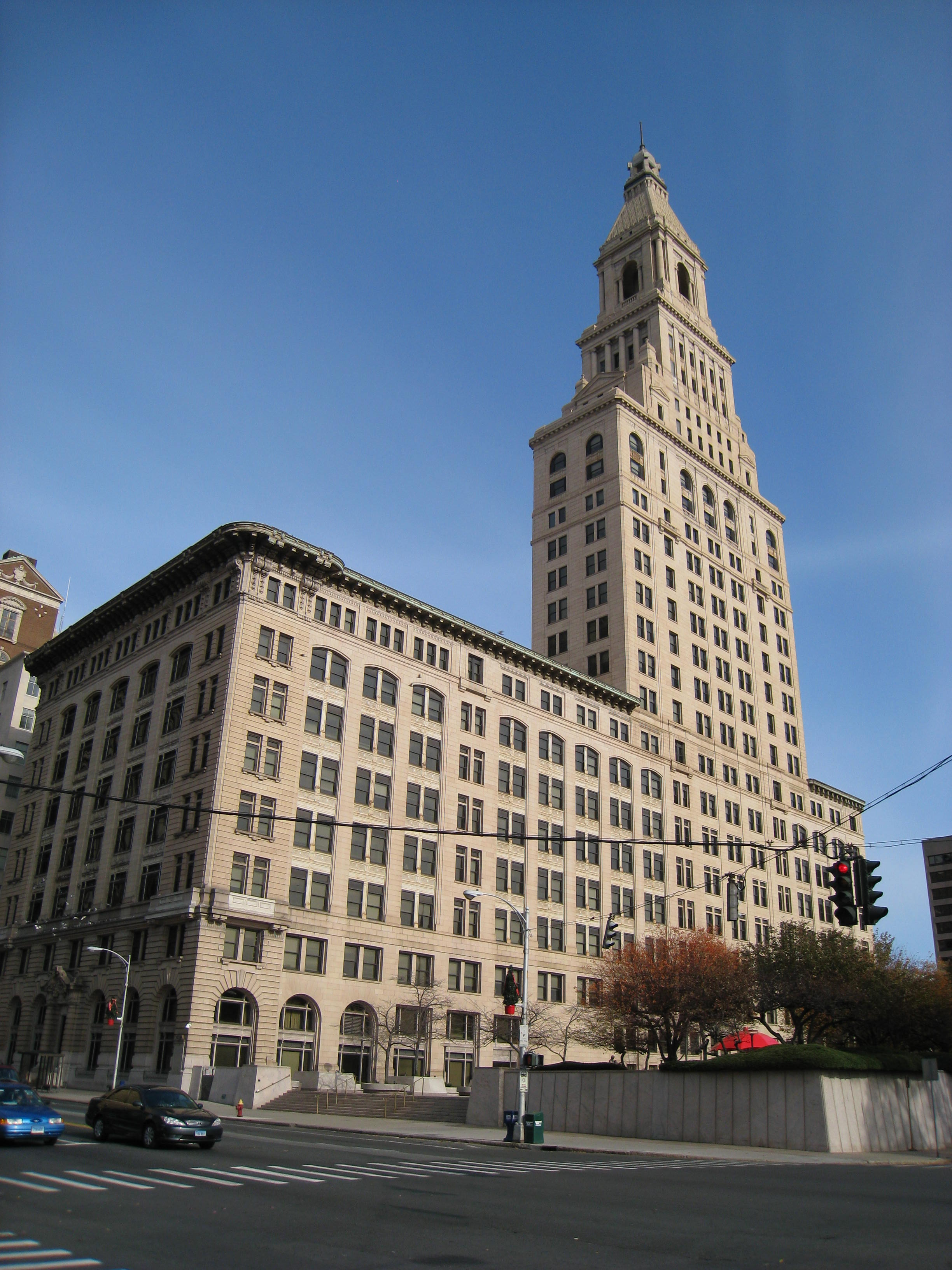 Travelers Tower, Hartford, Connecticut, USA. I took this photograph.